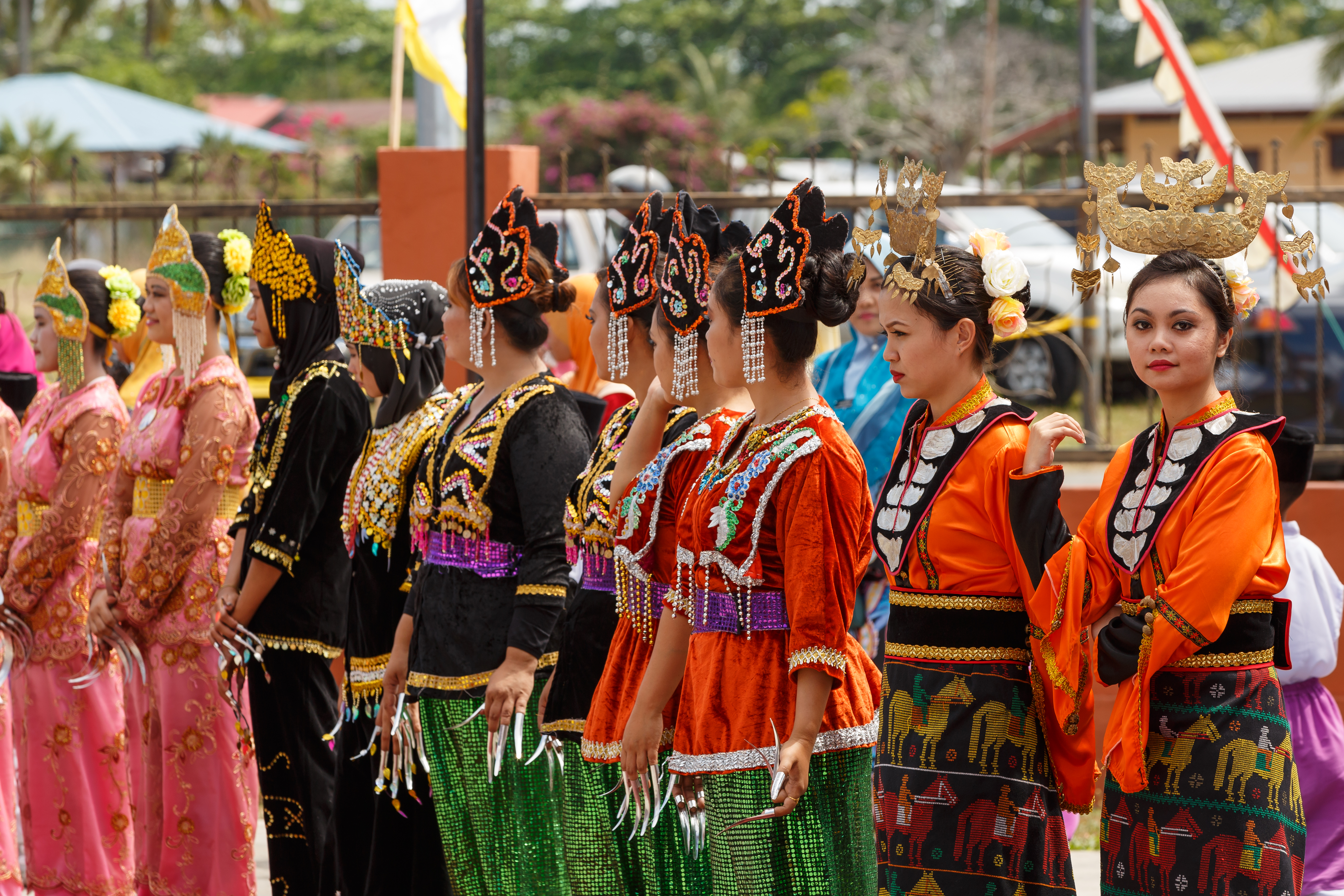 Semporna, Sabah: Bajau women in traditional clothing waiting for the arrival of Head of State. (Photo taken at the opening of Tun Sakaran Museum)